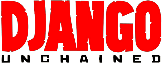 Logo for Quentin Tarantino's Django Unchained.